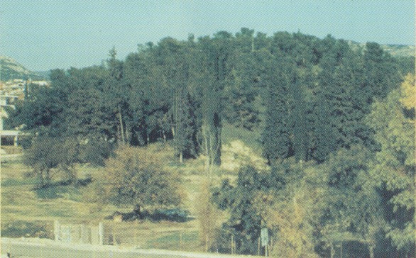 The Acropolis of Ancient Pyrassos